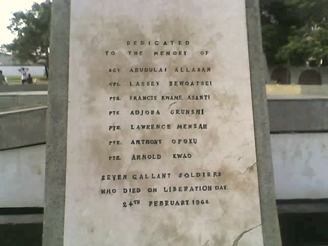 Osu (Accra), Castle Crossroads - Memorial tablet for the seven victims, which were shooted by security people of the Nkrumah government at an anti-Nkrumah-demonstration of the World-War-II-veterans on the 24th of February, 1966. This demonstration was, under others, part of a military coup (“Operation Cold Chop”) and on the end of this day, President Nkrumah was discharged as Head of State of Ghana and General Ankrah had taken over the power. Original caption: “Liberation Day Monument - Commemorates veterans of the Second World War who were shot en route to the seat of government during a peaceful demonstration.”